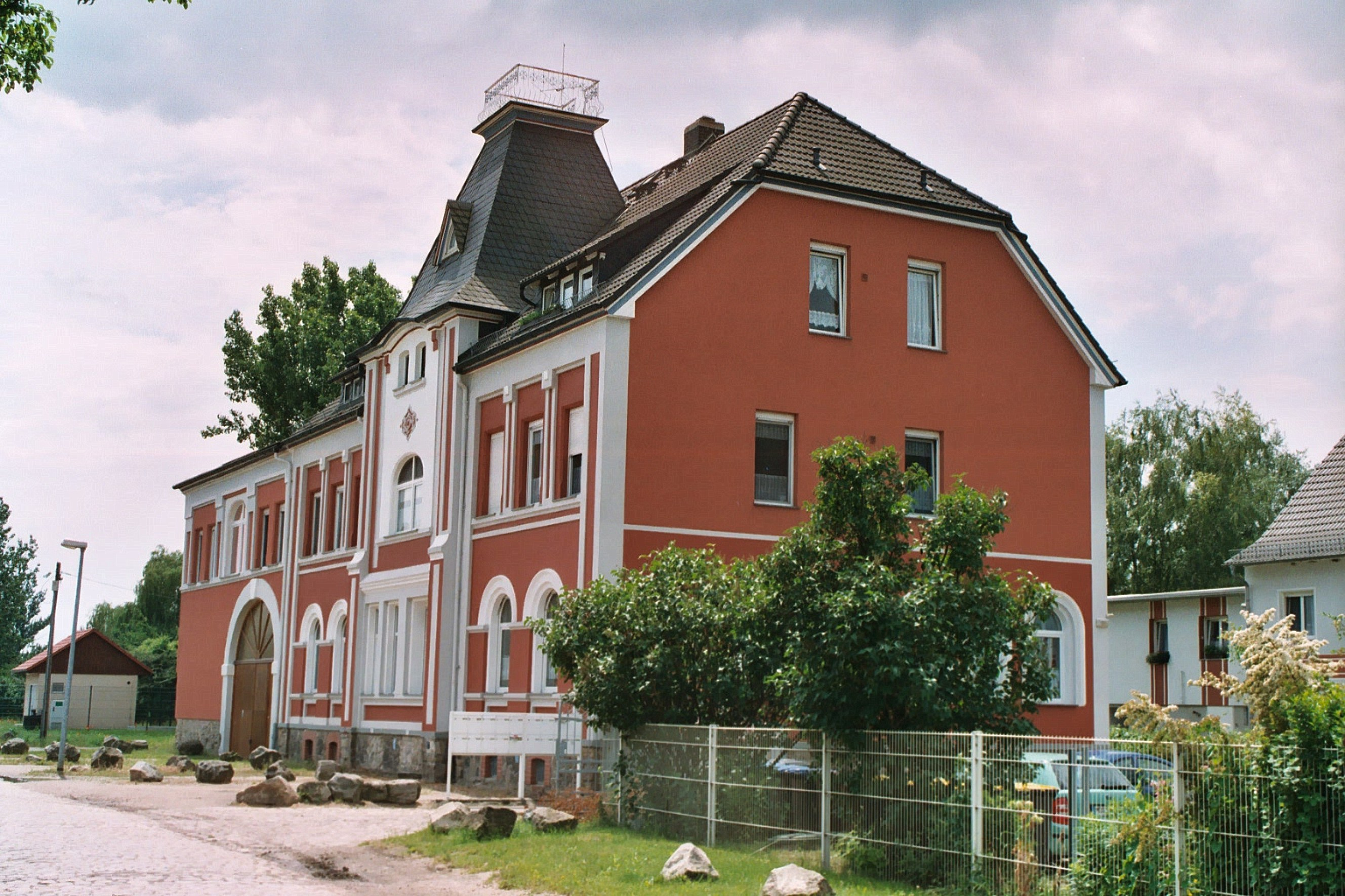 Milzau (Bad Lauchstädt), manor house